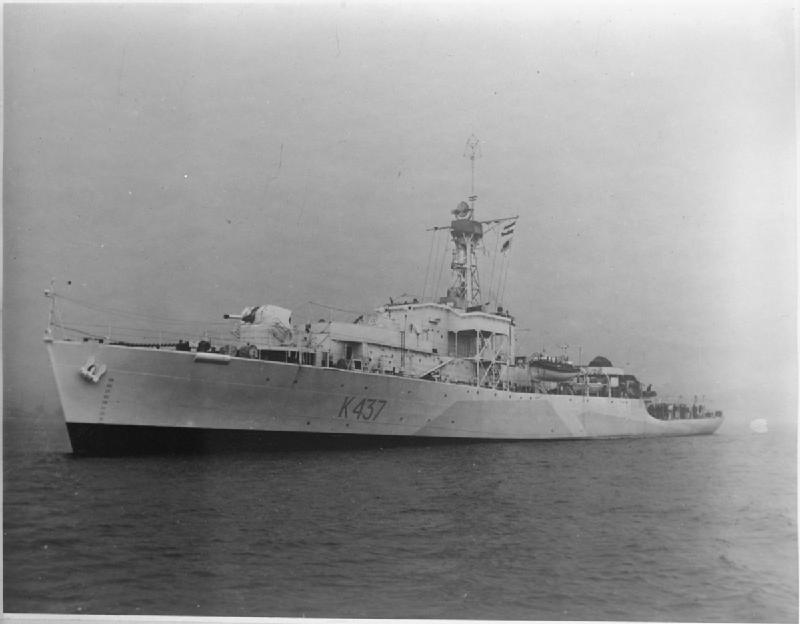 Photograph of British frigate HMS Loch Lomond.